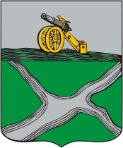 Yukhnov (Kaluga oblast), coat of arms (1780)